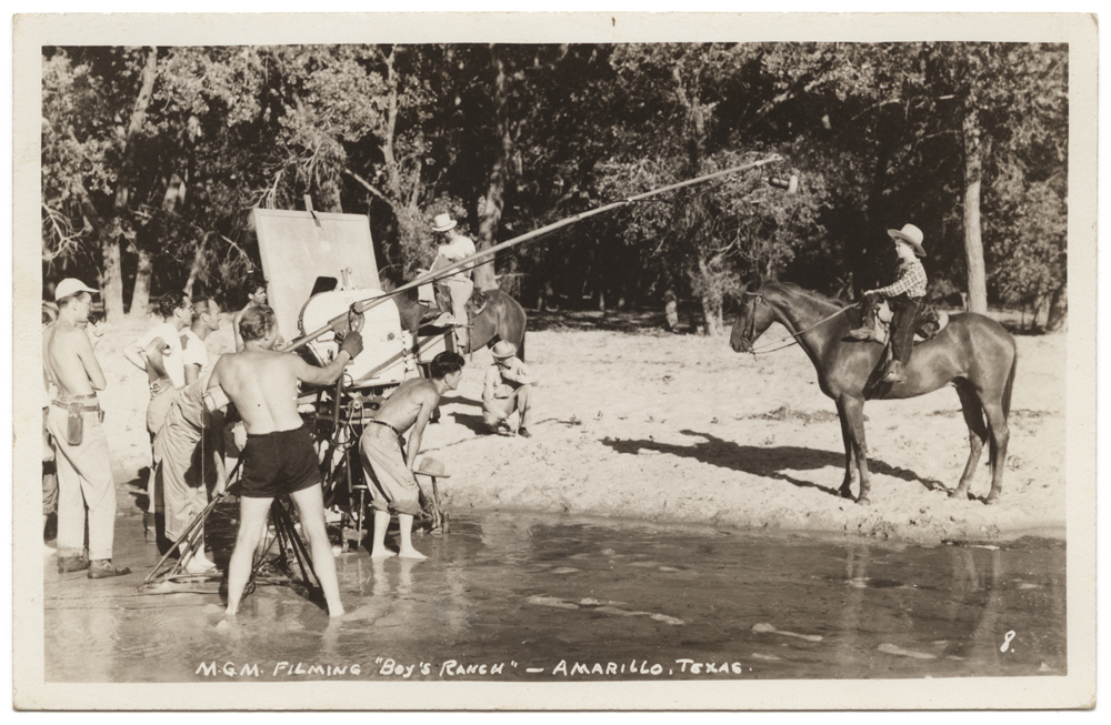 Title: M.G.M. Filming "Boy's Ranch" - Amarillo, Texas Date: ca. 1946 Part Of: Collection of real photographic postcards of Texas Place: Amarillo, Texas Physical Description: 1 photographic print (postcard) File: ag2005_0001_01_008_c_amarillo_opt.jpg Rights: Please cite DeGolyer Library, Southern Methodist University when using this file. A high-resolution version of this file may be obtained for a fee. For details see the web page. For other information, . For more information, View Texas: Photographs, Manuscripts, and Imprints